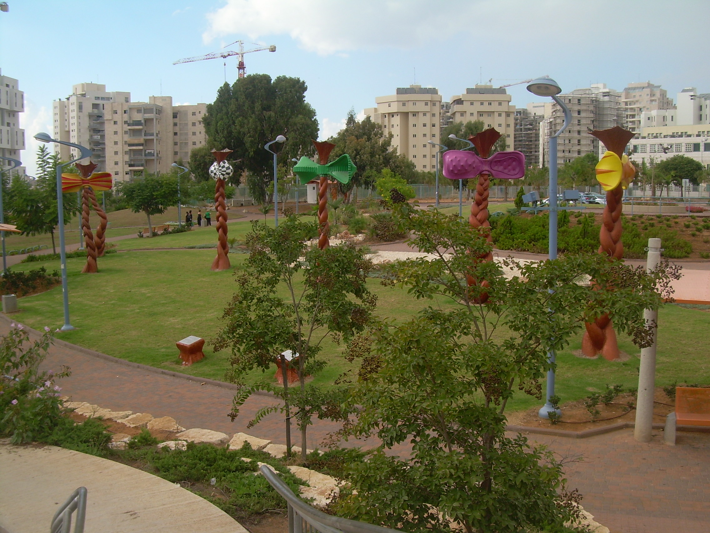 Children Park in Holon, Geography of Israel